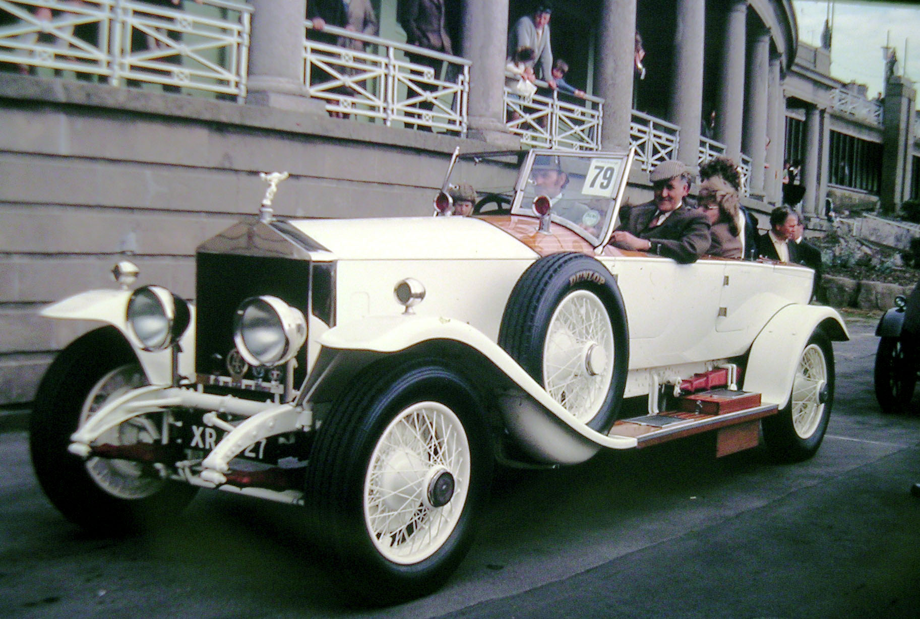 Vintage Rolls Royce 1924. XR6127. 1924 Rolls-Royce Silver Ghost (chassis 48EM) with replica boat-tail body. It was owned by the Triplex Co in the 1970's. I think it's Barrie Heath at the wheel.